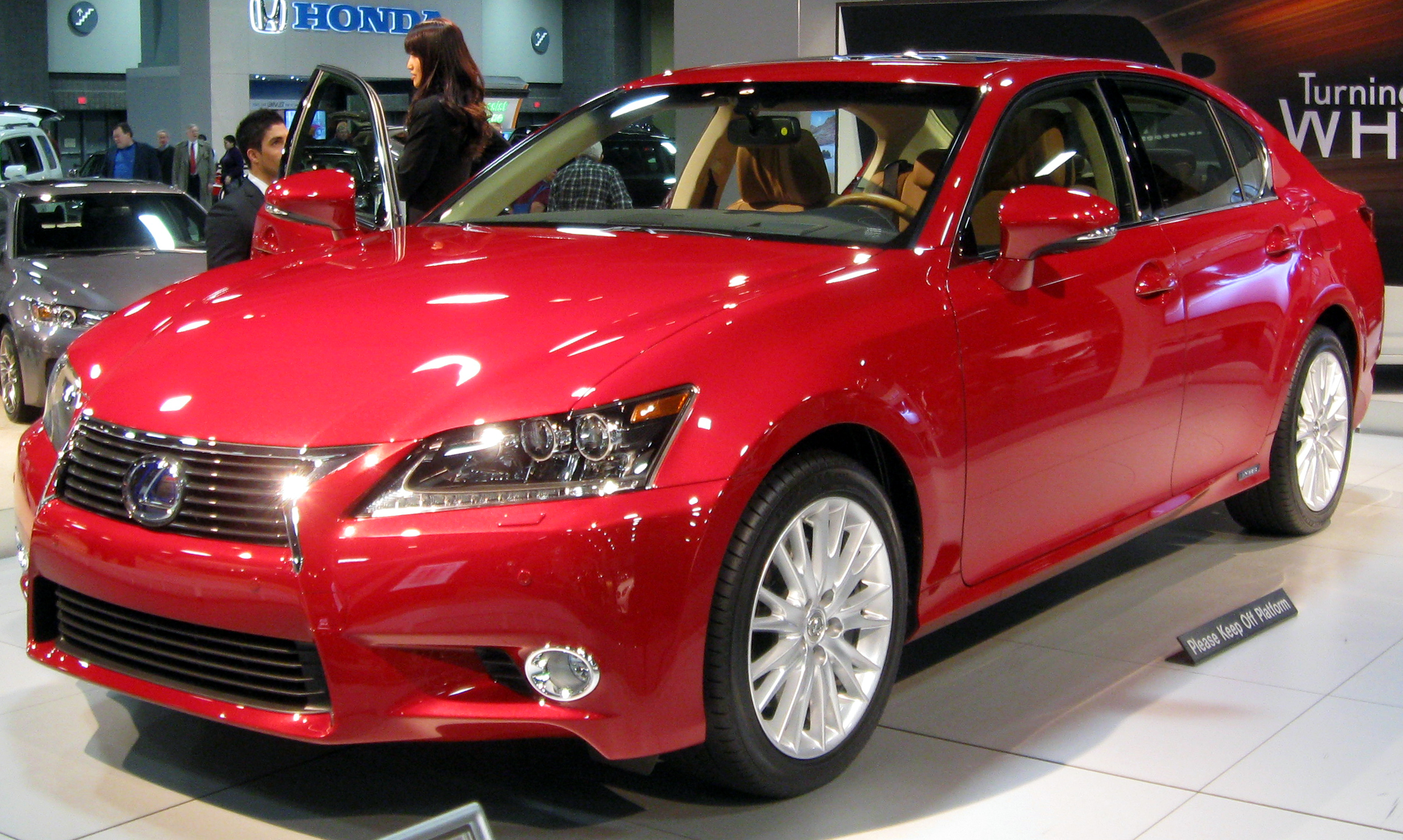 2013 Lexus GS450h photographed in Washington, D.C., USA.